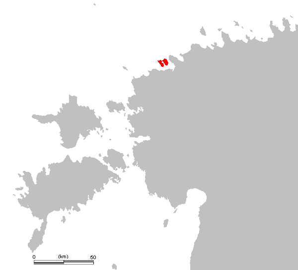 Pakri islands on the map of Estonia.